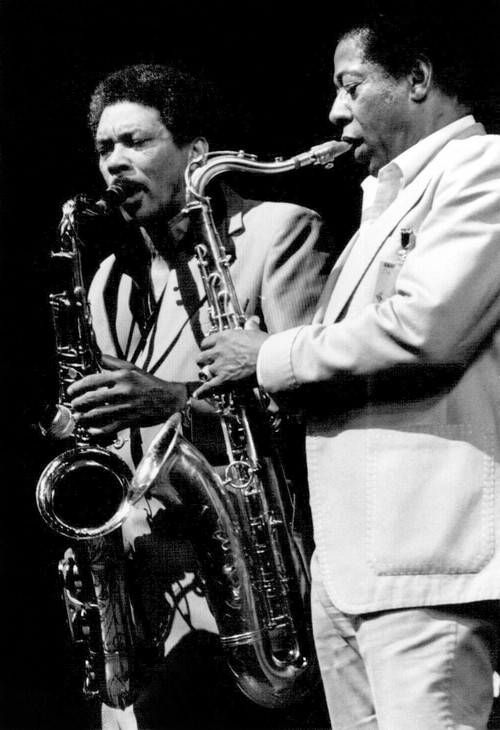 American tenor saxophone players Lee Allen and Herb Hardesty in Paris, France